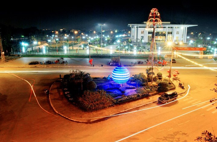 A corner of Tuyên Quang city, Tuyên Quang province, Vietnam.